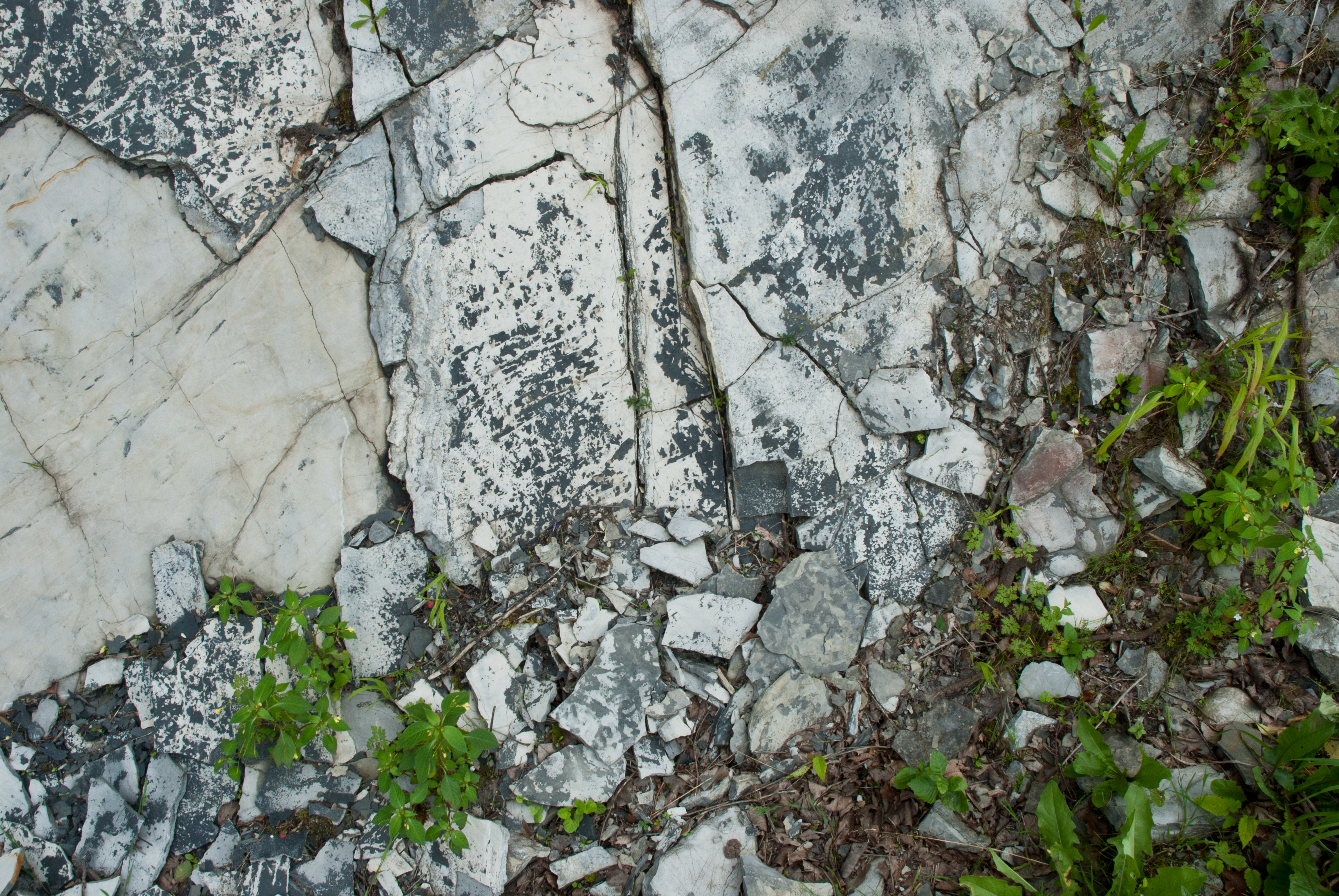 Stones of the Göstling-Formation near Göstling